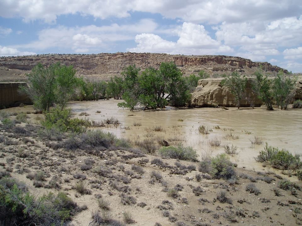 An NPS picture of Chaco Wash during flooding.